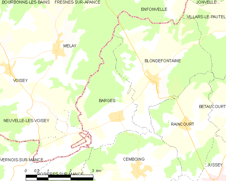 Map of French municipality